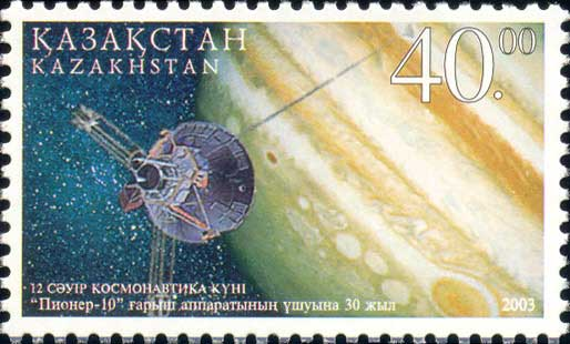 Stamp of Kazakhstan